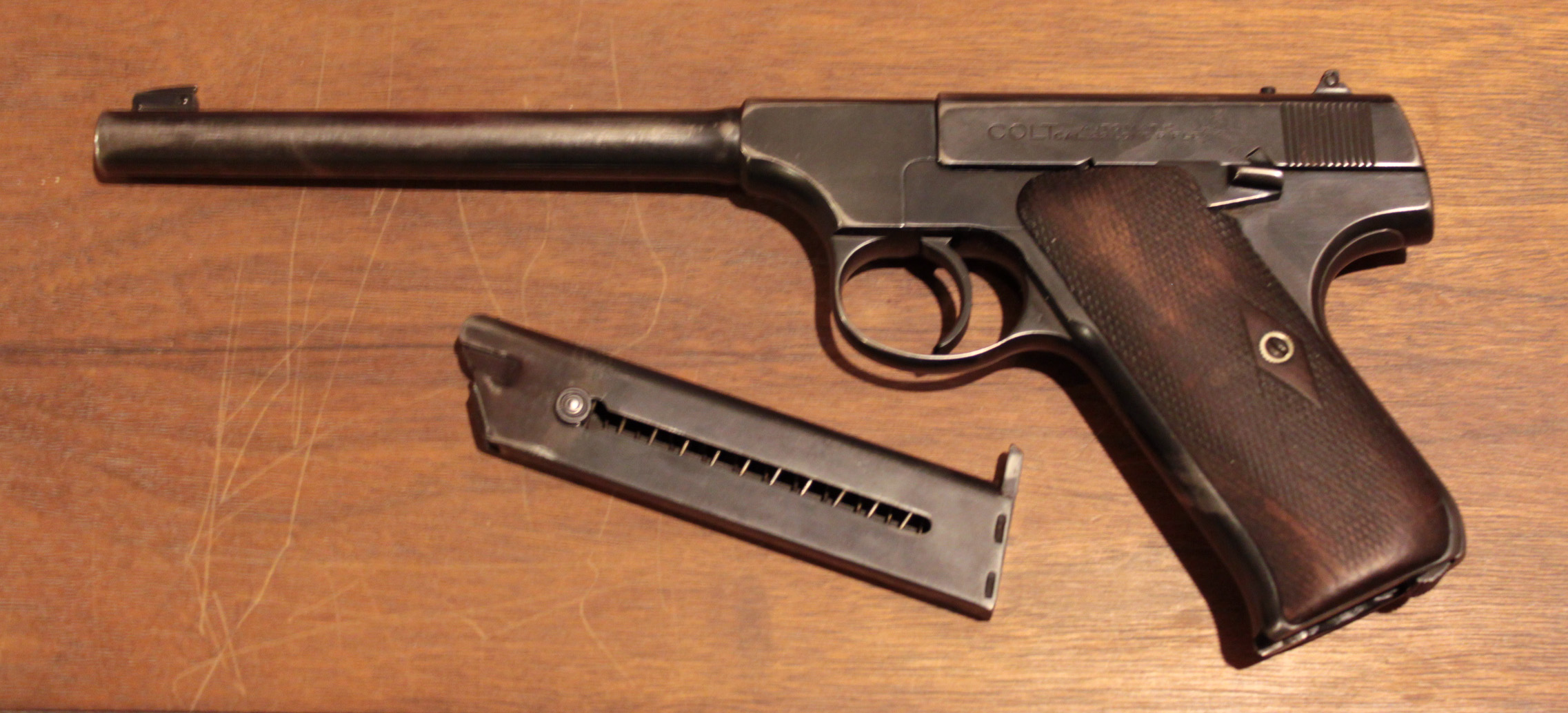 An early first series Colt Woodsman pistol.